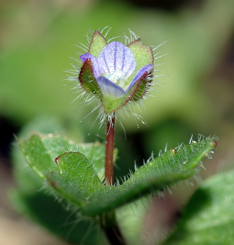 This image shows a Veronica hederifolia blossom.